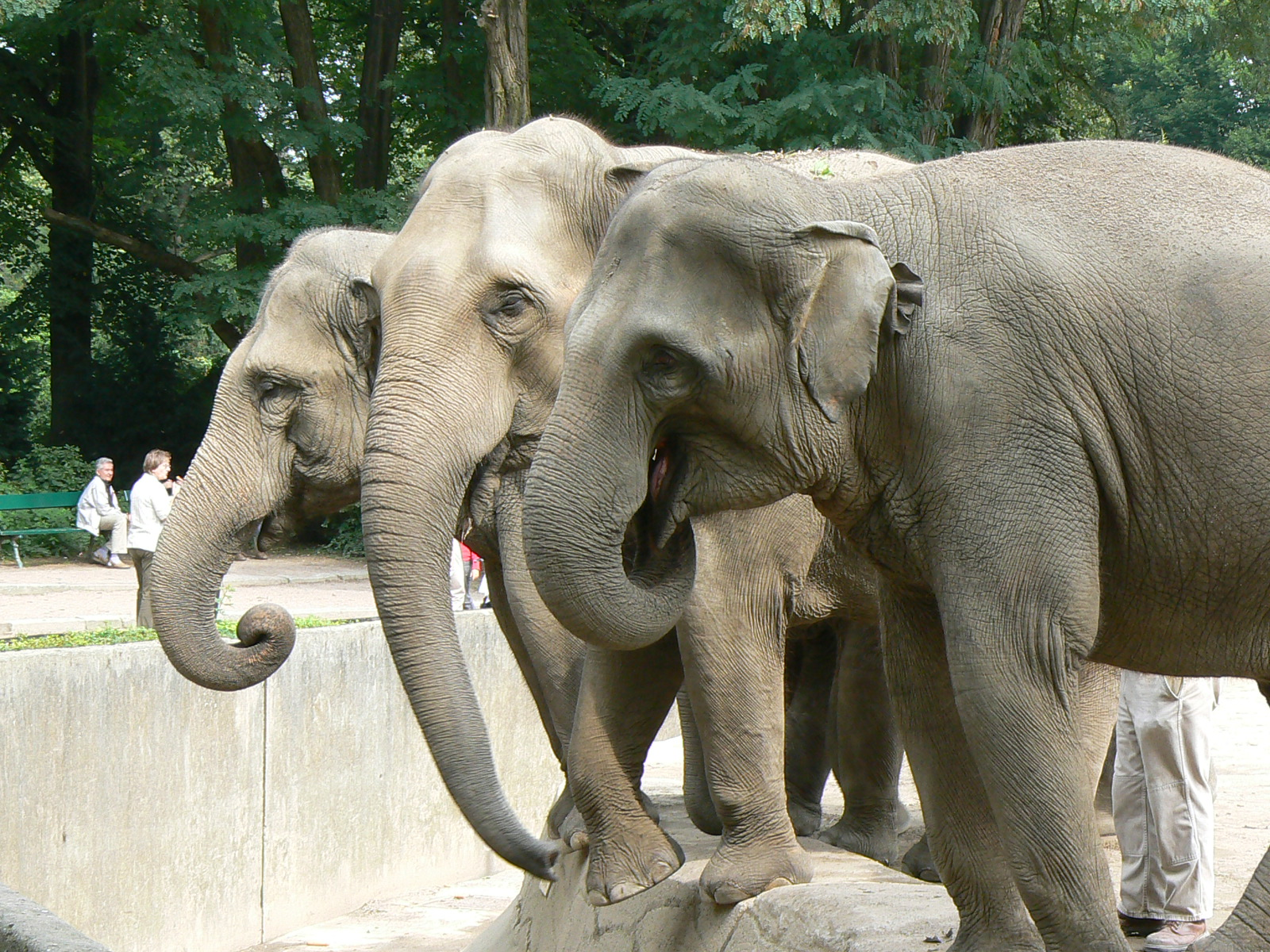 3 asian elephants on the zoo from hamburg "Elephas maximus"